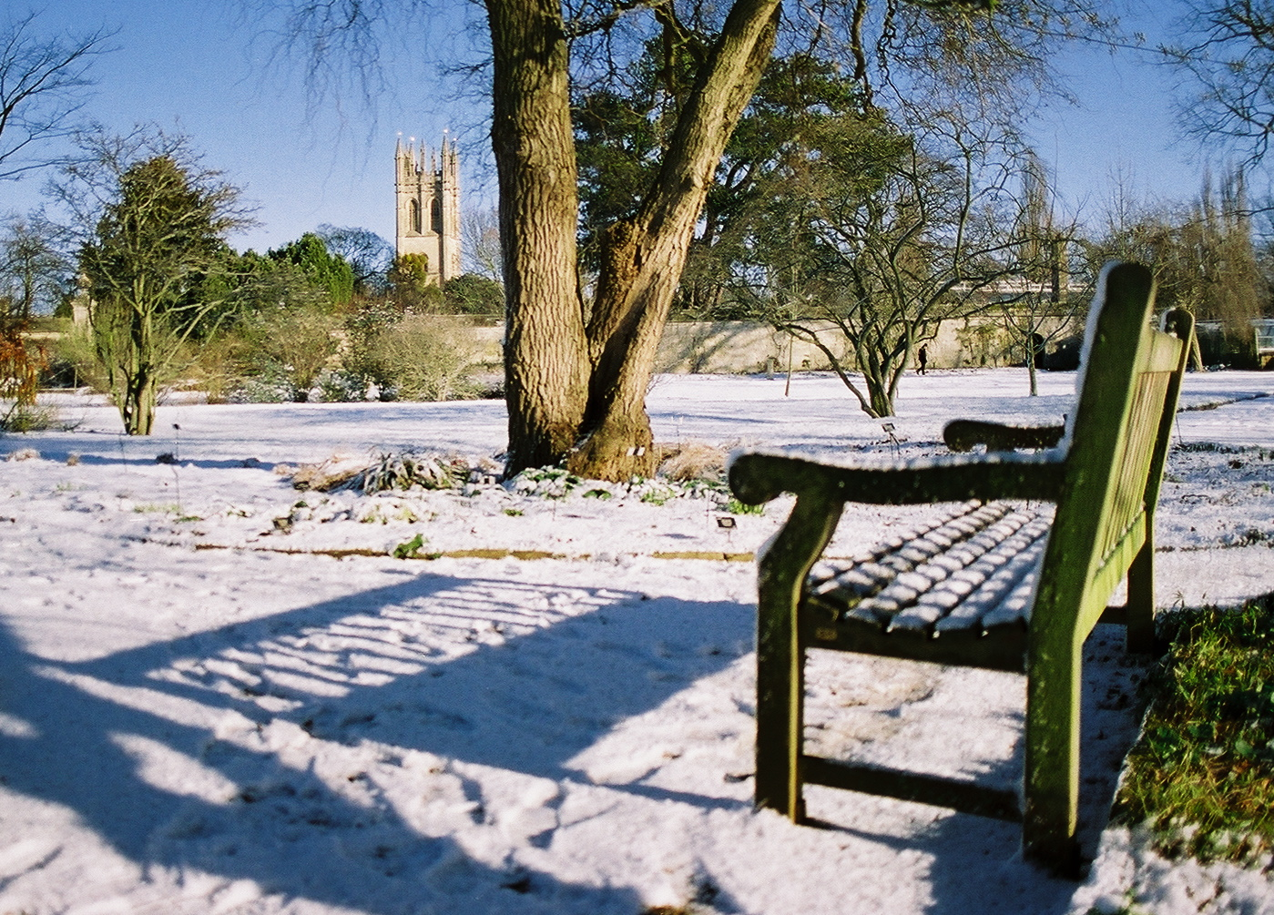 A photograph of Will's Bench from Philip Pullman's book 'The Amber Spyglass'. It is a real bench, found within the Oxford Botanic Gardens.